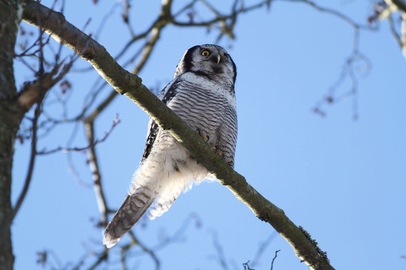 Surnia ulula (Strigidae) (Northern Hawk-Owl) - (adult), Klippan, Sweden